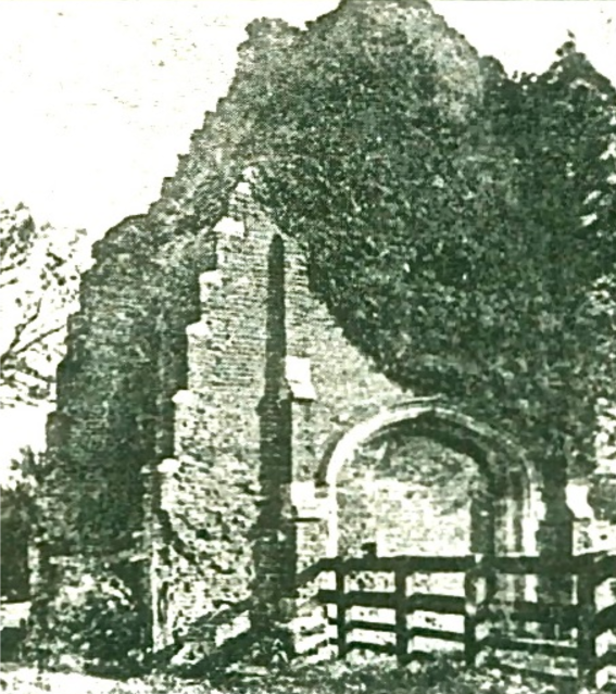 Col. Moore's photos of the entrance archway to the road leading to Orme Hall in 1893. Reproduced from a postcard courtesy of Lincolnshire Life, as illustrated in the Jan., 1986, Vol. 25, No. 10 issue, p. 37, in Tom Taylor's letter to the editor, which stated that he thought it had been printed and published by the proprietor of the Kirton Post Office around 1903.